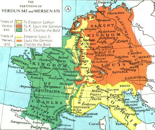 The Division of the Carolingian Empire: Verdun 843 and Mersen, 870 (Col)